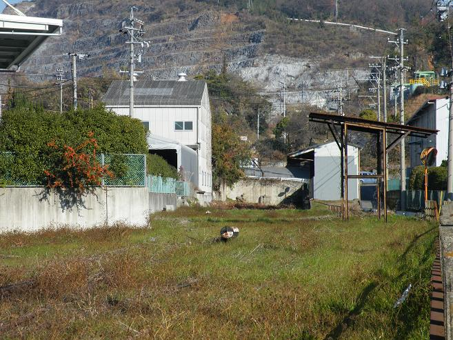 Mino-Okubo Station (abandoned railway station), Gifu, Japan.